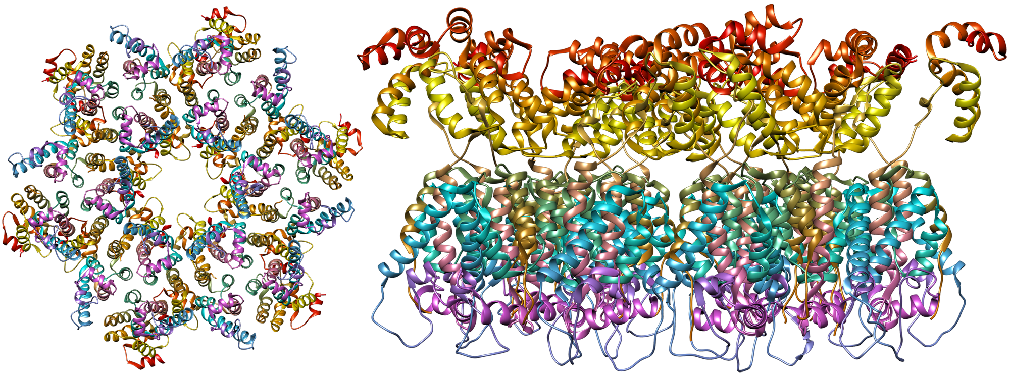 Structure of the Immature HIV-1 Capsid in Intact Virus Particles at 8.8A Resolution. Visualized with UCSF Chimera. PDB: 4USN